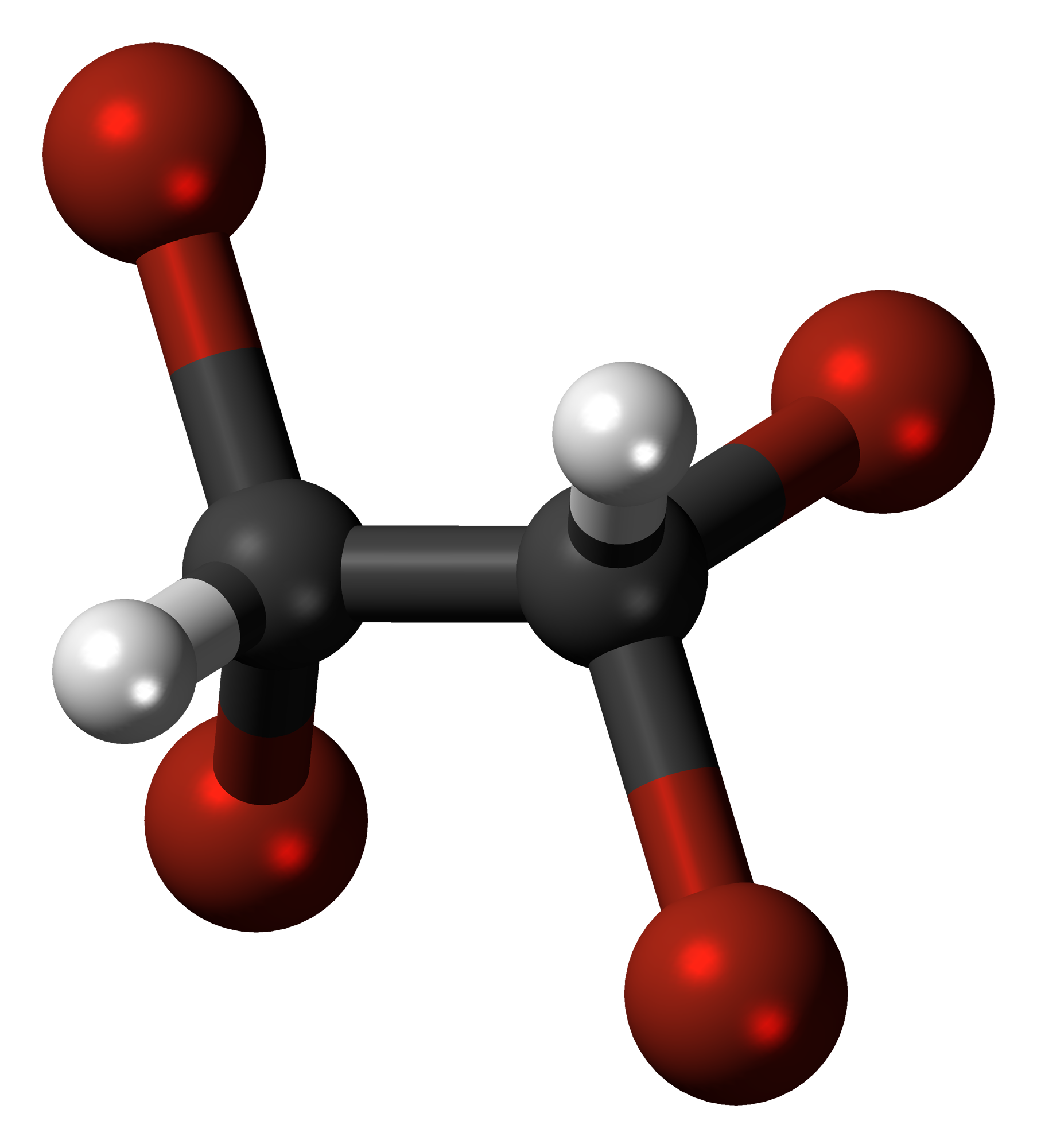 Ball-and-stick model of the 1,1,2,2-tetrabromoethane molecule, an organobromide. Colour code: Carbon, C: black Hydrogen, H: white Bromine, Br: red-brown